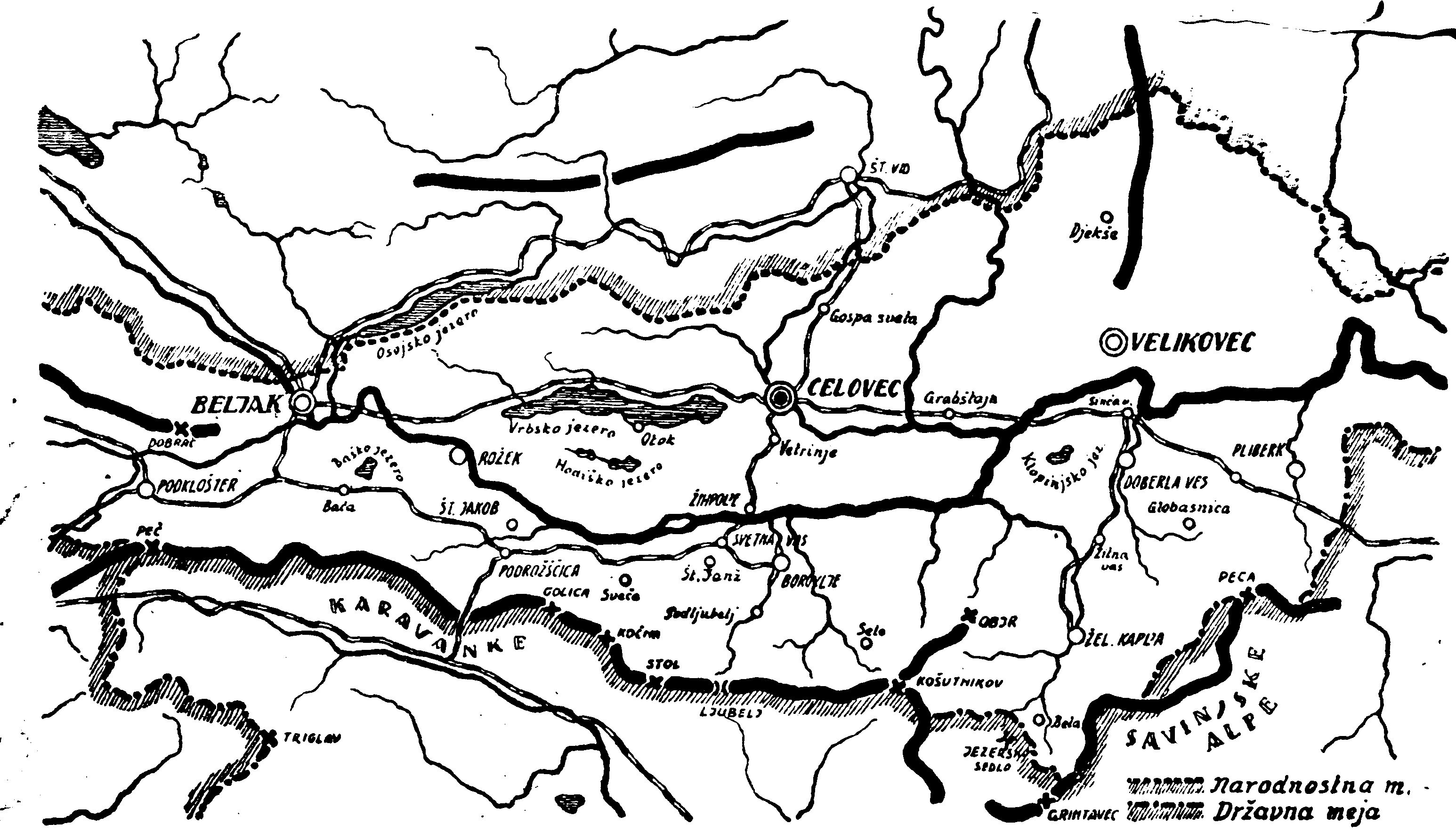 Map of Southern Koroško (Carinthia, Kärnten) in 1929